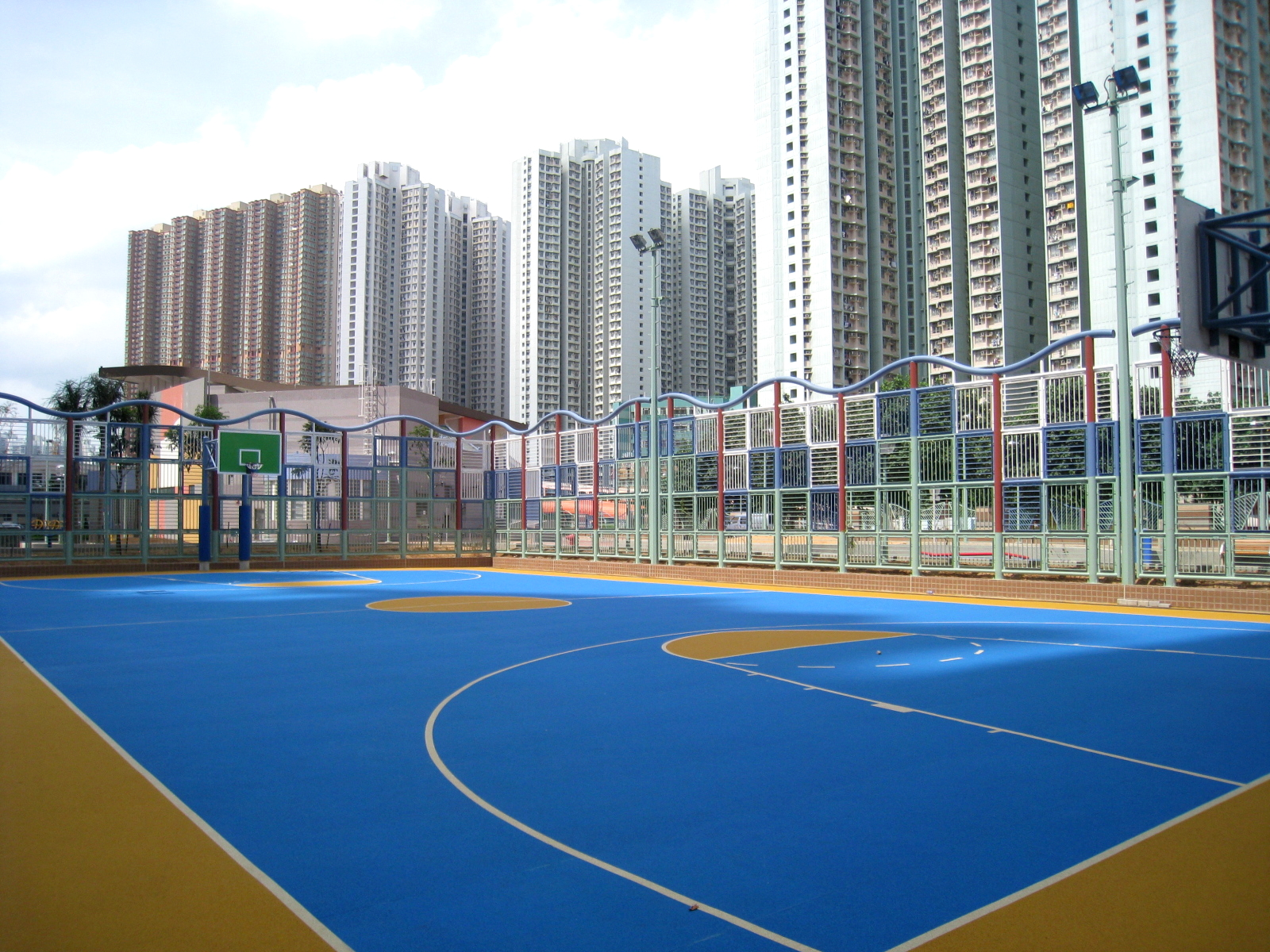 Tin Ching Estate Basketball Court.中文（香港）: 天晴邨籃球場。